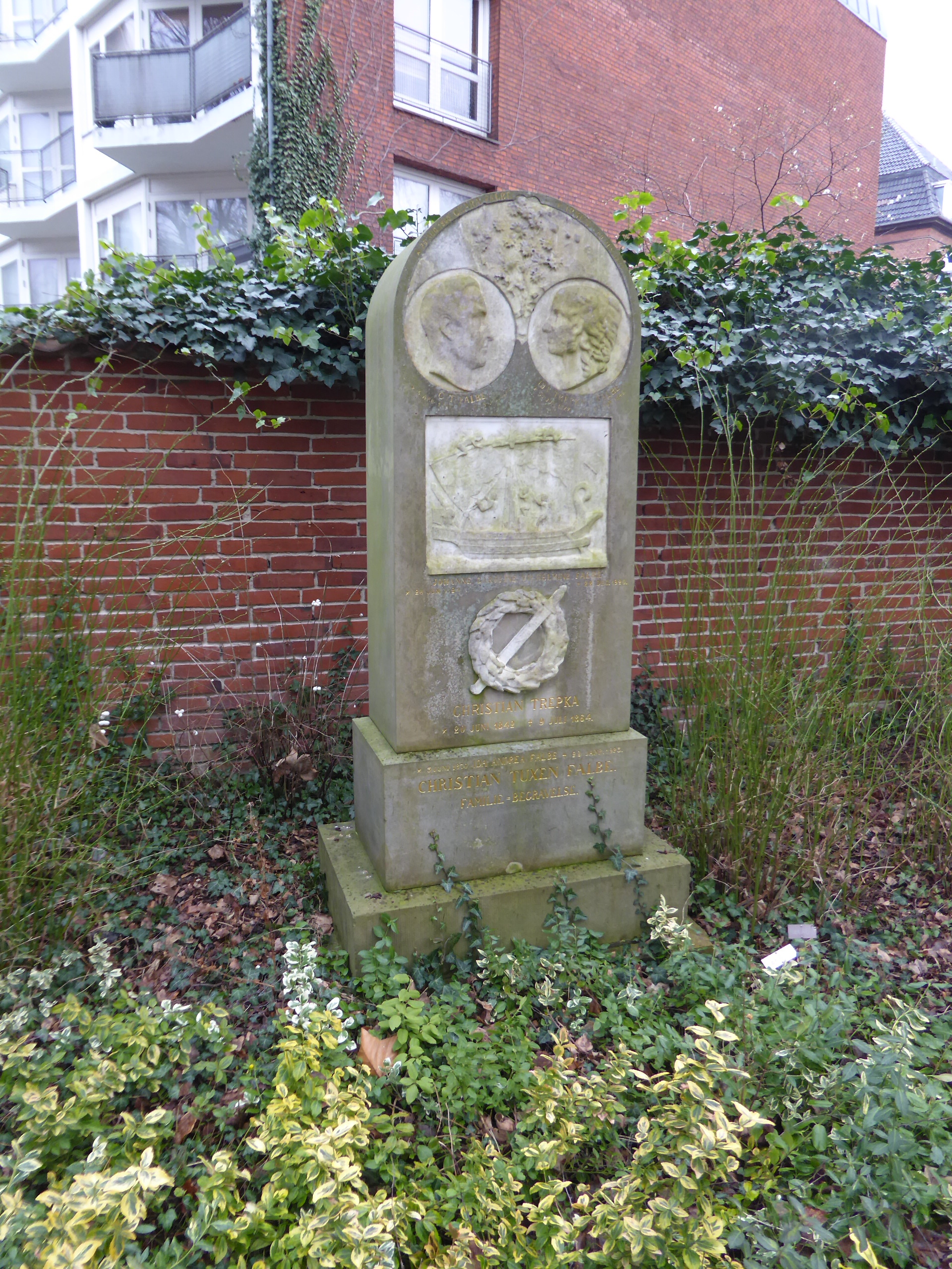 Grave of the naval officer Christian Tuxen Falbe (1791-1849) at Holmens Kirkegård in Copenhagen. He was the first Danish photographer.